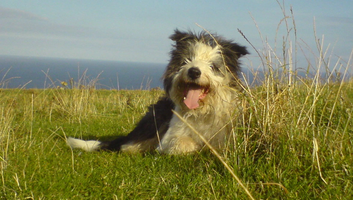 Age:3; Gender:Male; Location:Scottish hill